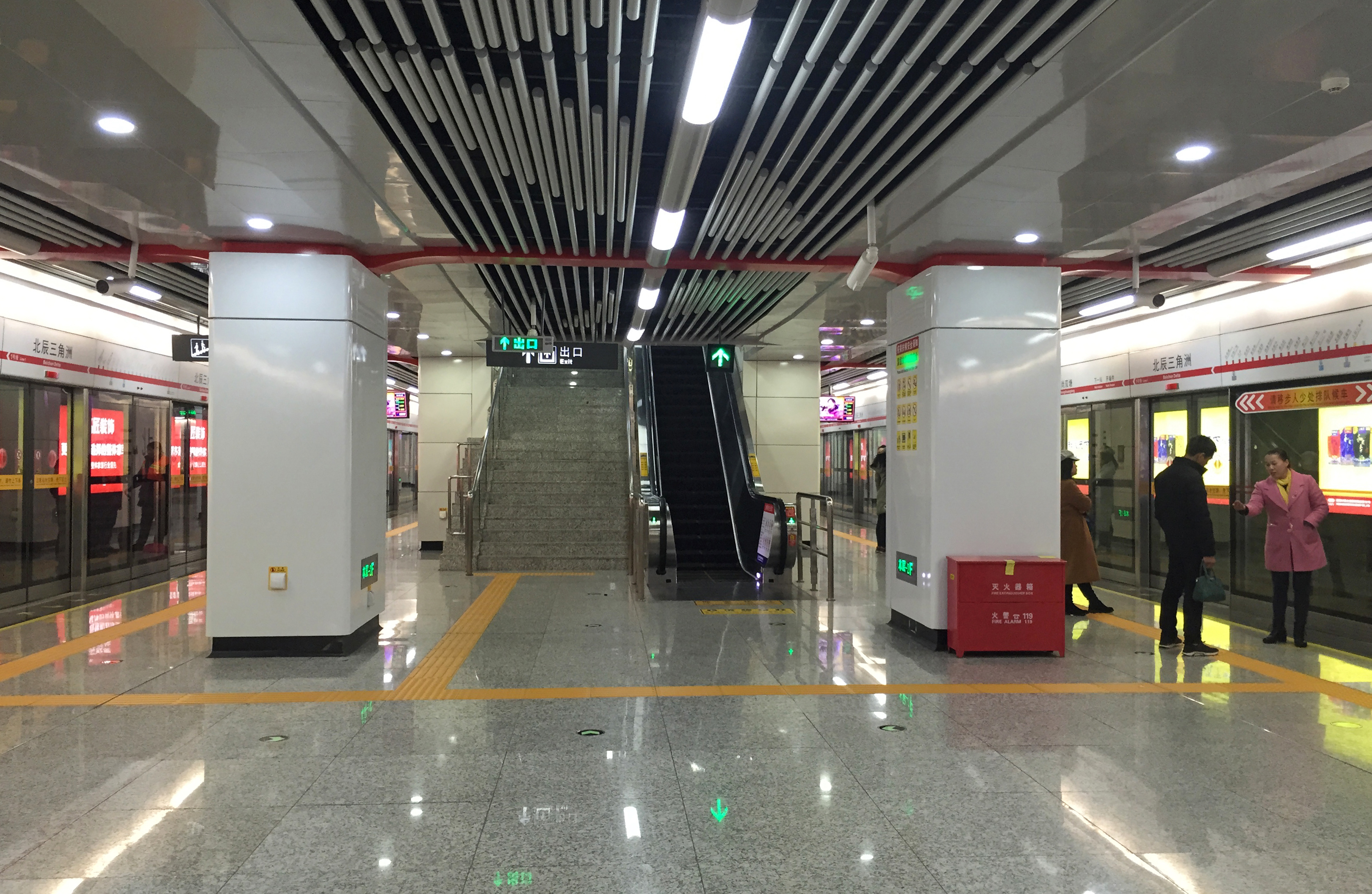 Still some 700 meters from InterContinental. The station name is actually a property developed by Beijing North Star Company Limited.